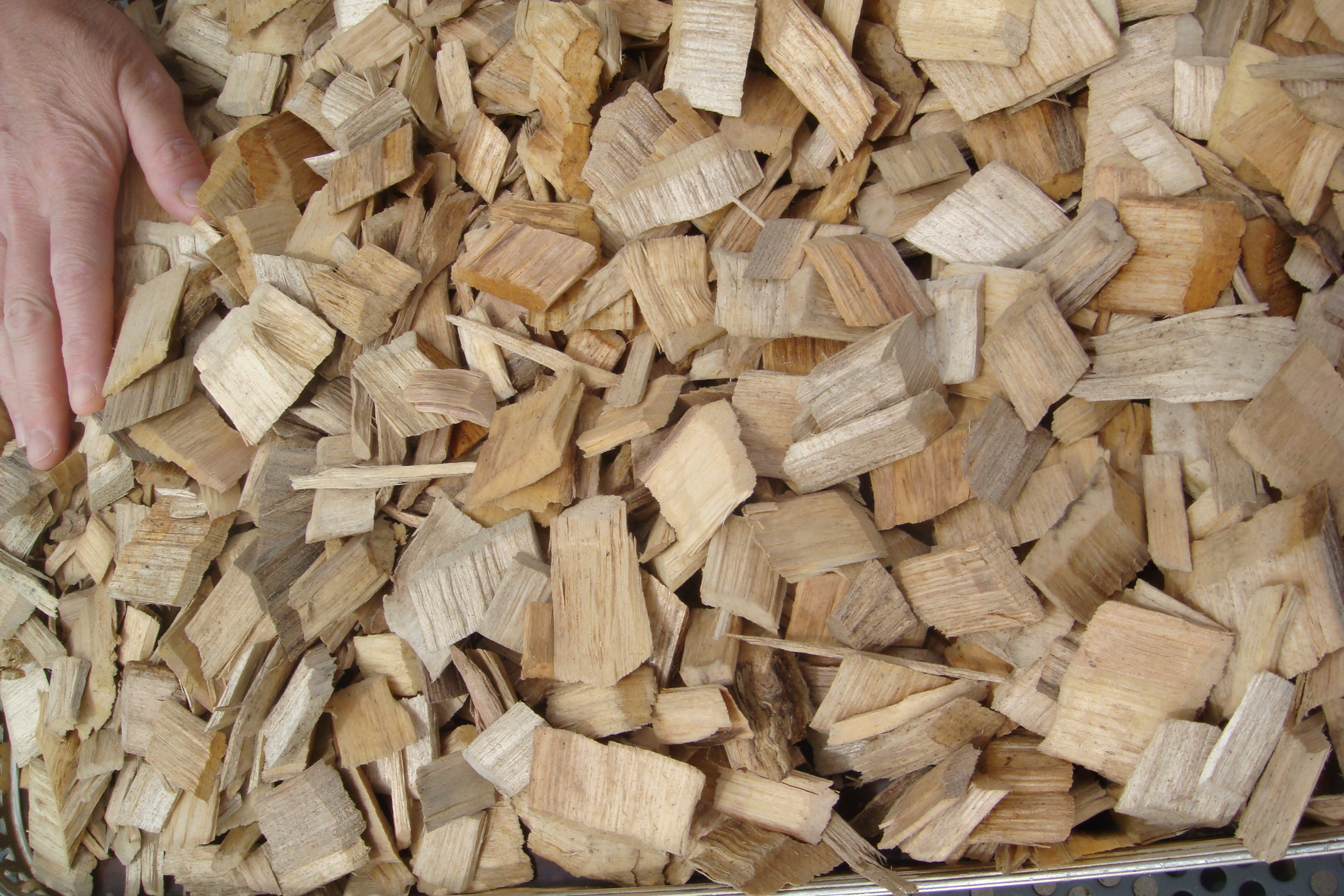 Woodchip